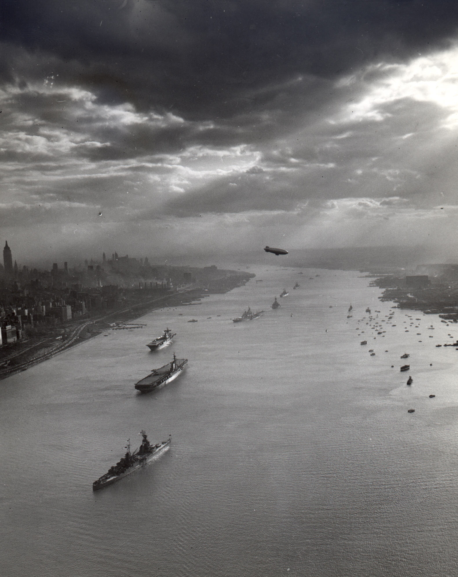 Tugboats and U.S. Navy warships pictured in the Hudson River with the New York City skyline in the background for the Navy Day celebrations on 27 October 1945. Visible in the foreground are the anchored warships USS Augusta (CA-31), USS Midway (CVB-41), USS Enterprise (CV-6), USS Missouri (BB-63), USS New York (BB-34), USS Helena (CA-75), and USS Macon (CA-132).